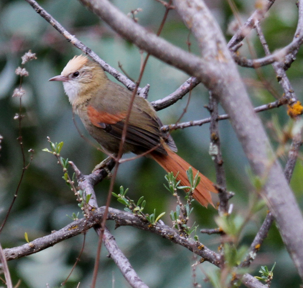 Northeast of Cusco - Peru